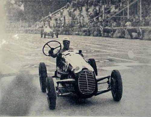 Turin - September 3, 1946 - Andrea Brezzi Cup - Tazio Nuvolari, a Cisitalia D46 in 1h 25'57 "concludes the race without flying to 13th place.